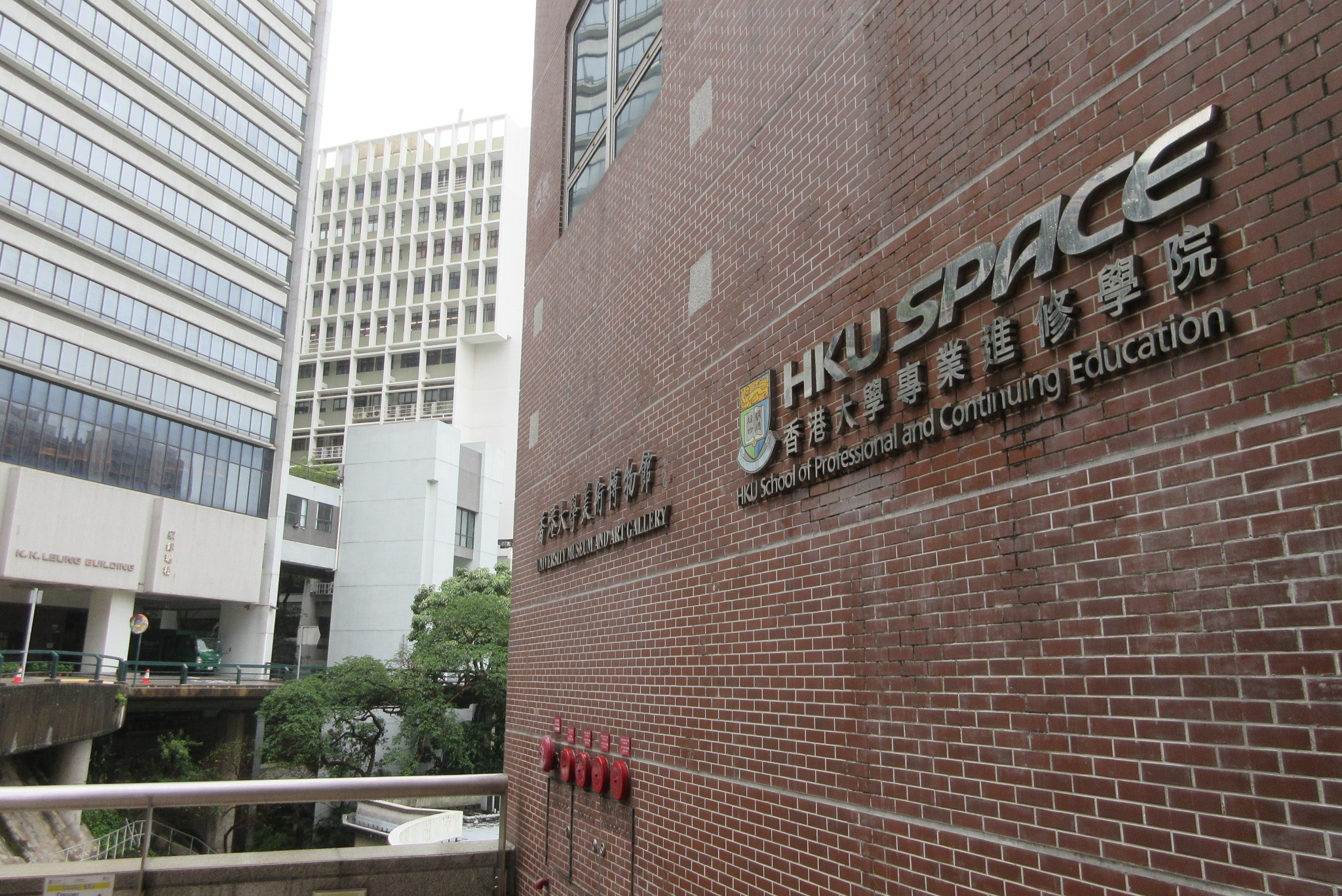 HKU 香港大學 campus name sign TT Tsui Building June 2017 IX1